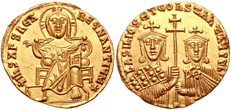 Basil I the Macedonian, with Constantine. 867-886. AV Nomisma (20mm, 4.44 g, 12h). Constantinople mint. Struck circa 871-886. + IҺS XPS RЄX RЄςNANTIЧM *, Christ Pantokrator seated facing on throne / ЬASILIOS ЄT COnSτANτ’ AЧςς’ Ь’, crowned facing half-length busts of Basil and Constantine, both wearing loros and holding patriarchal cross between them. DOC 2; Füeg 3.C.1; SB 1704.